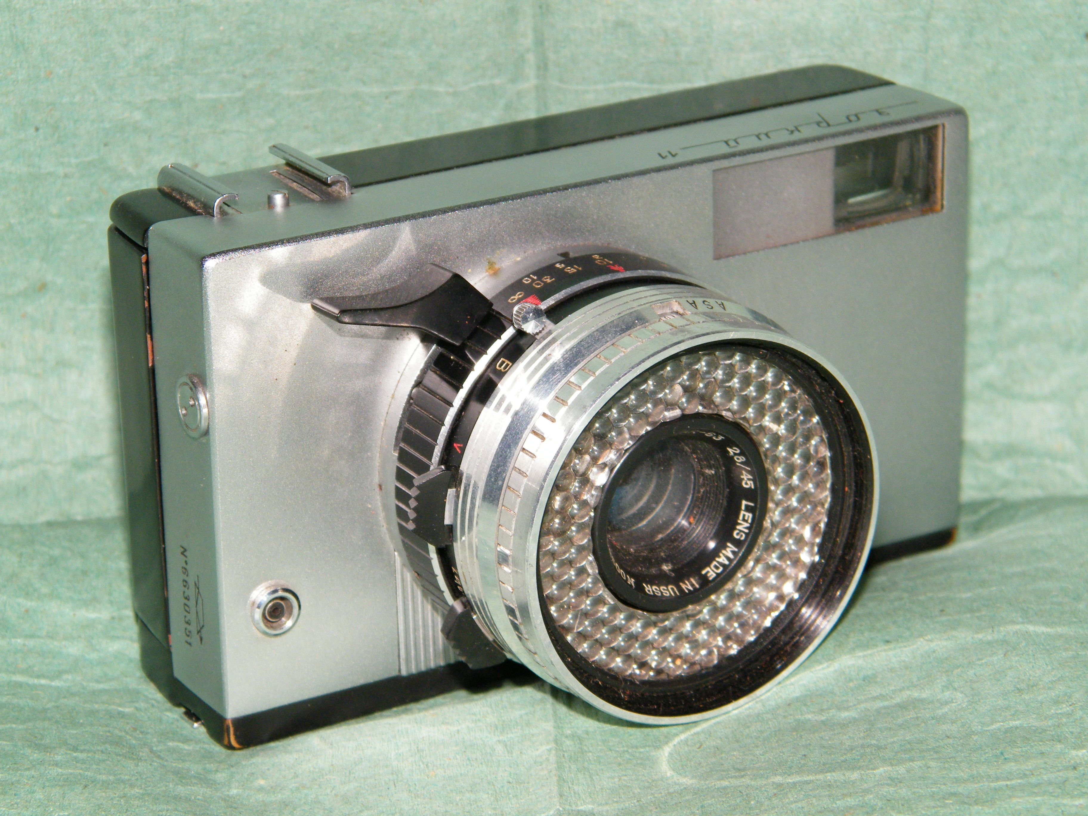 Zorki 11